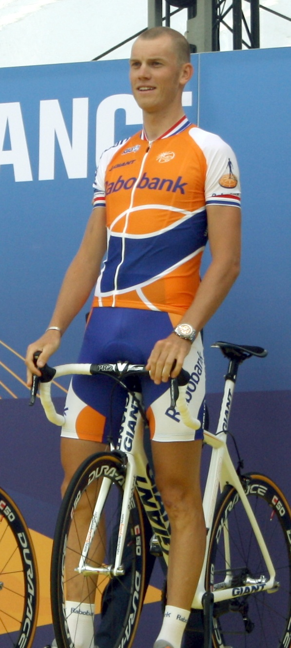 Lars Boom at the team presentation of the 2010 Tour de France in Rotterdam